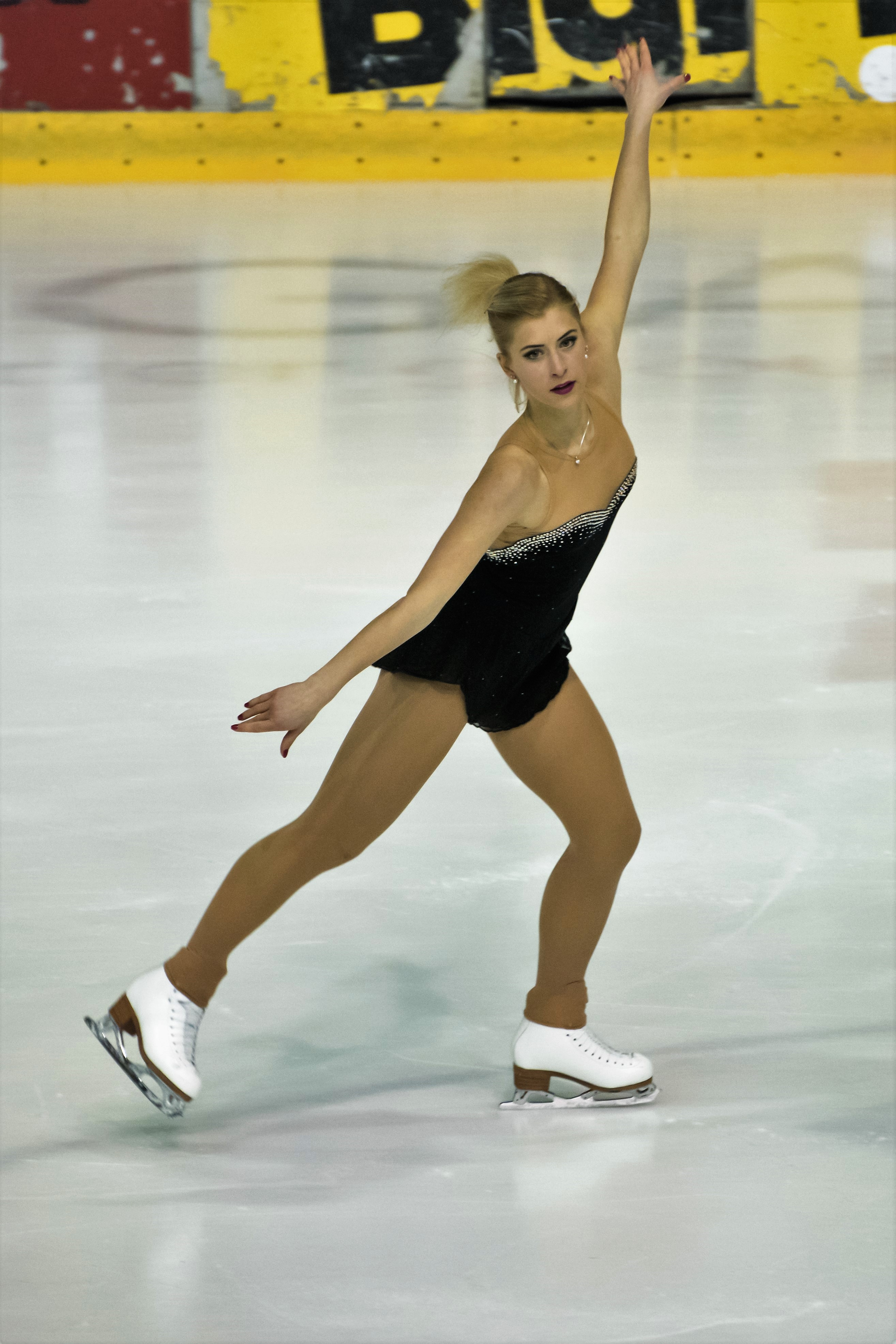 With a 131.90 points in Beograd